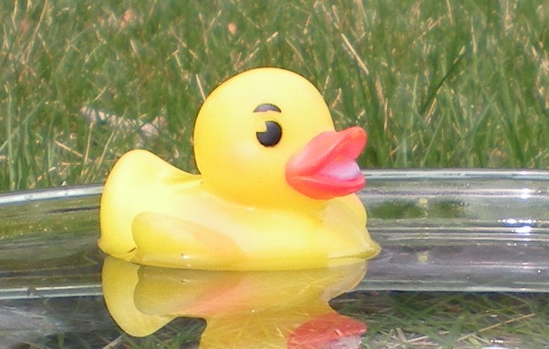 A yellow rubber duck floating in a glass bowl filled with water. The duck has a reflection. The bowl is set on grass.